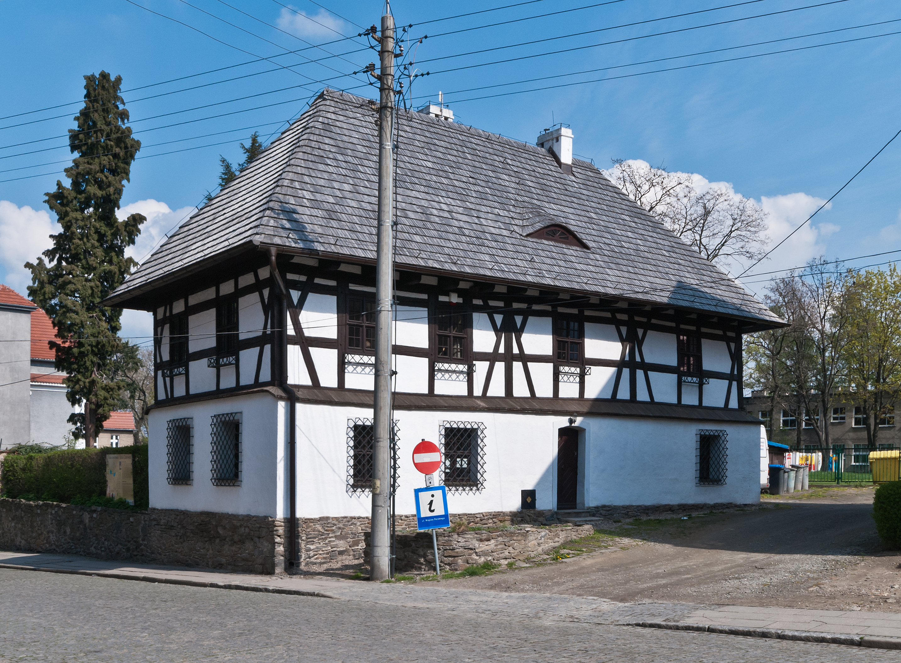 23 Wojska Polskiego Street in Paczków